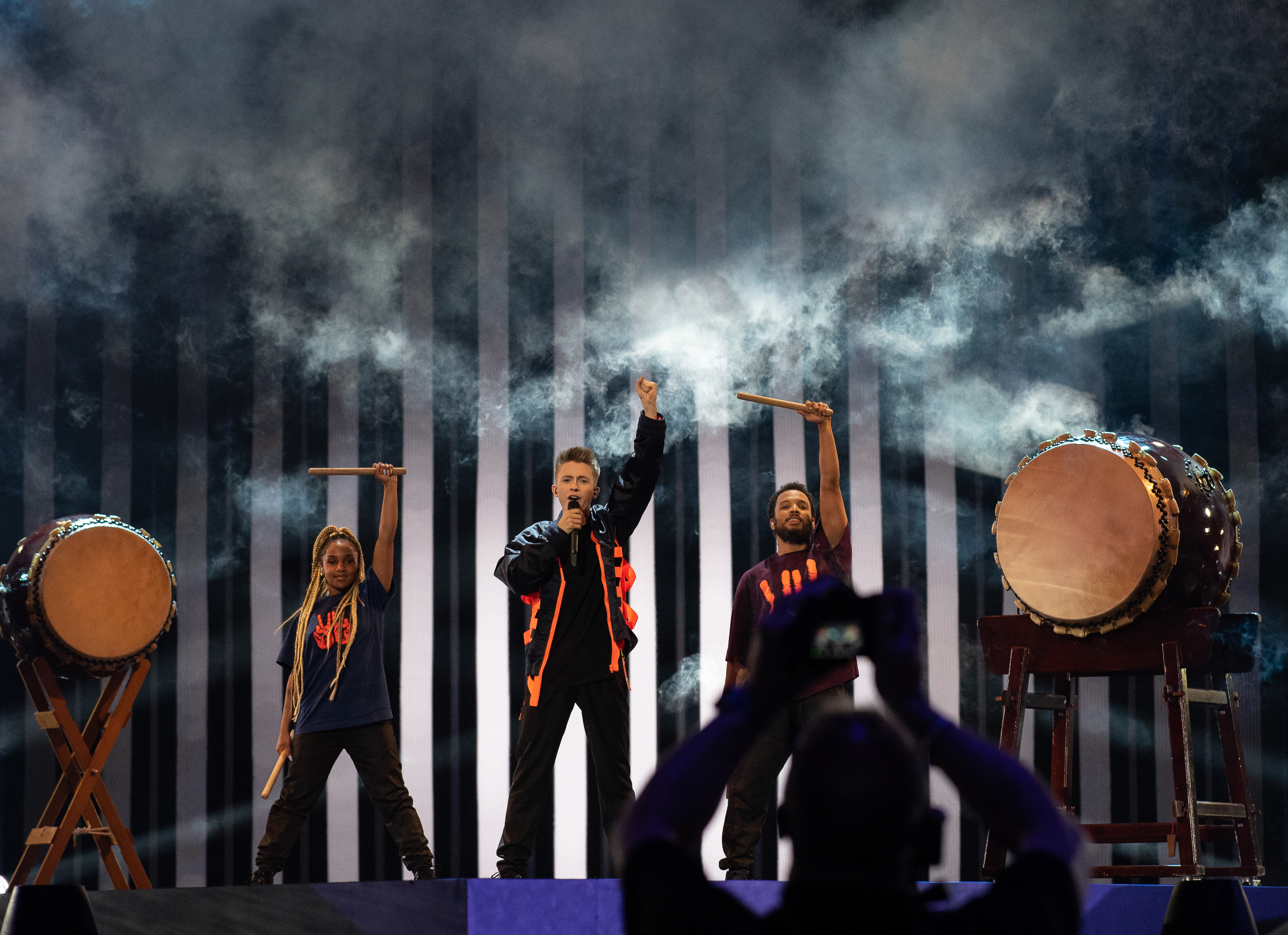 At the 2019 Eurovision Song Contest Semi-final 1 dress rehearsal